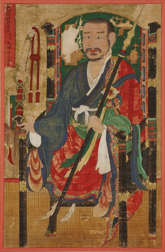 Portrait of Yeonggyu, who was a Korean Buddhist monk and militia leader who fought in the Imjin war, possession of the National Museum of Korea.